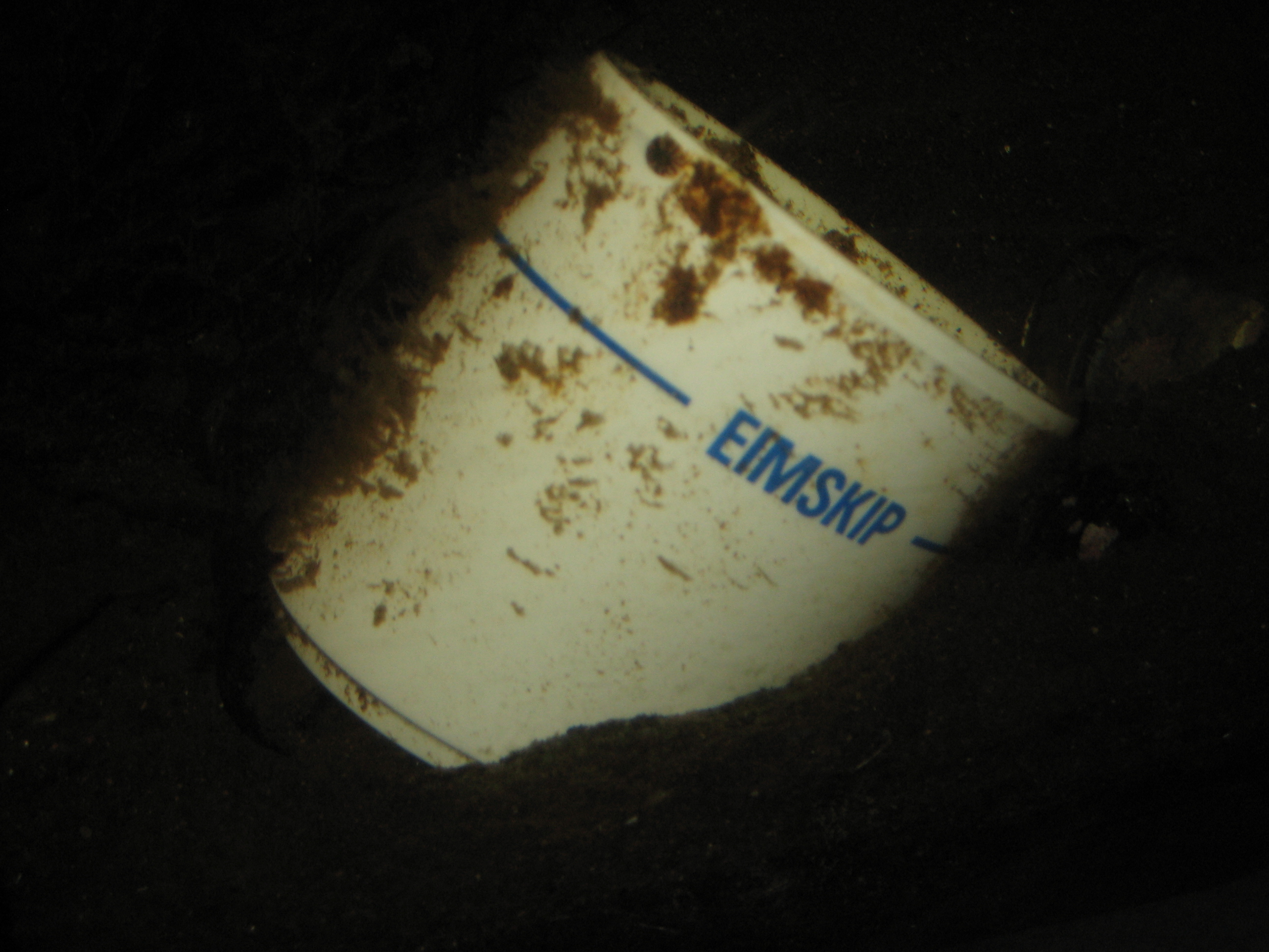 Biofouling on a cup in a saltwater fish tank in Borgir University og Akureyri Iceland